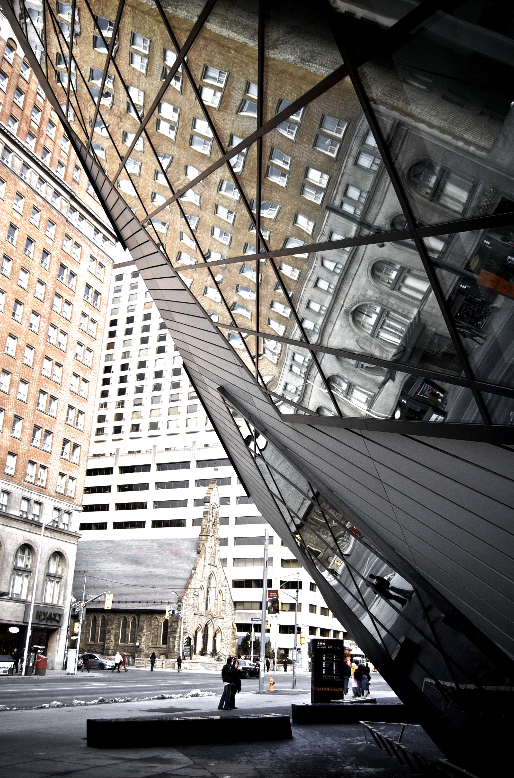 The Royal Ontario Museum and Bloor Street West. Toronto, Canada.